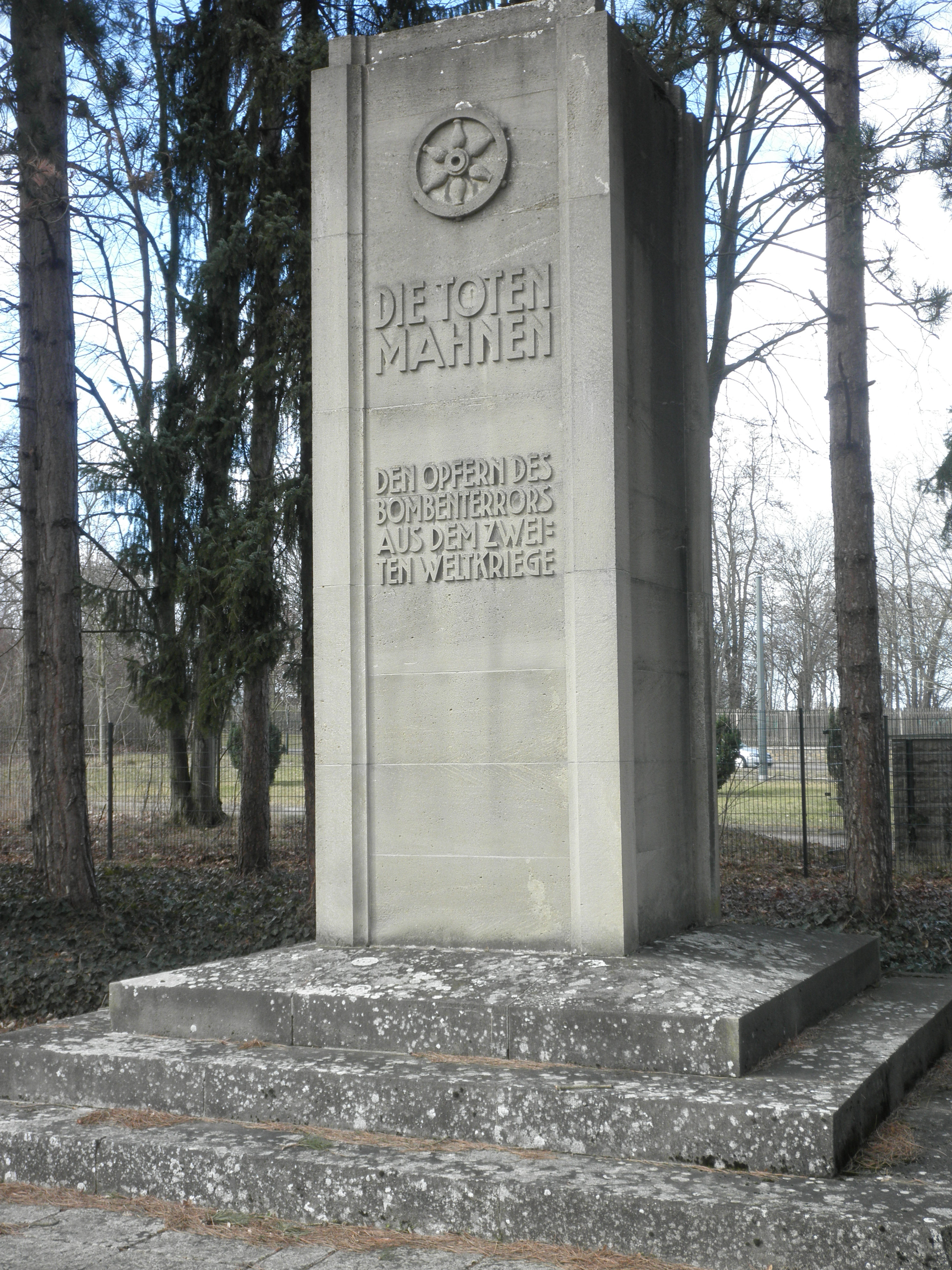 Monument for Victims of Bombing in Erfurt